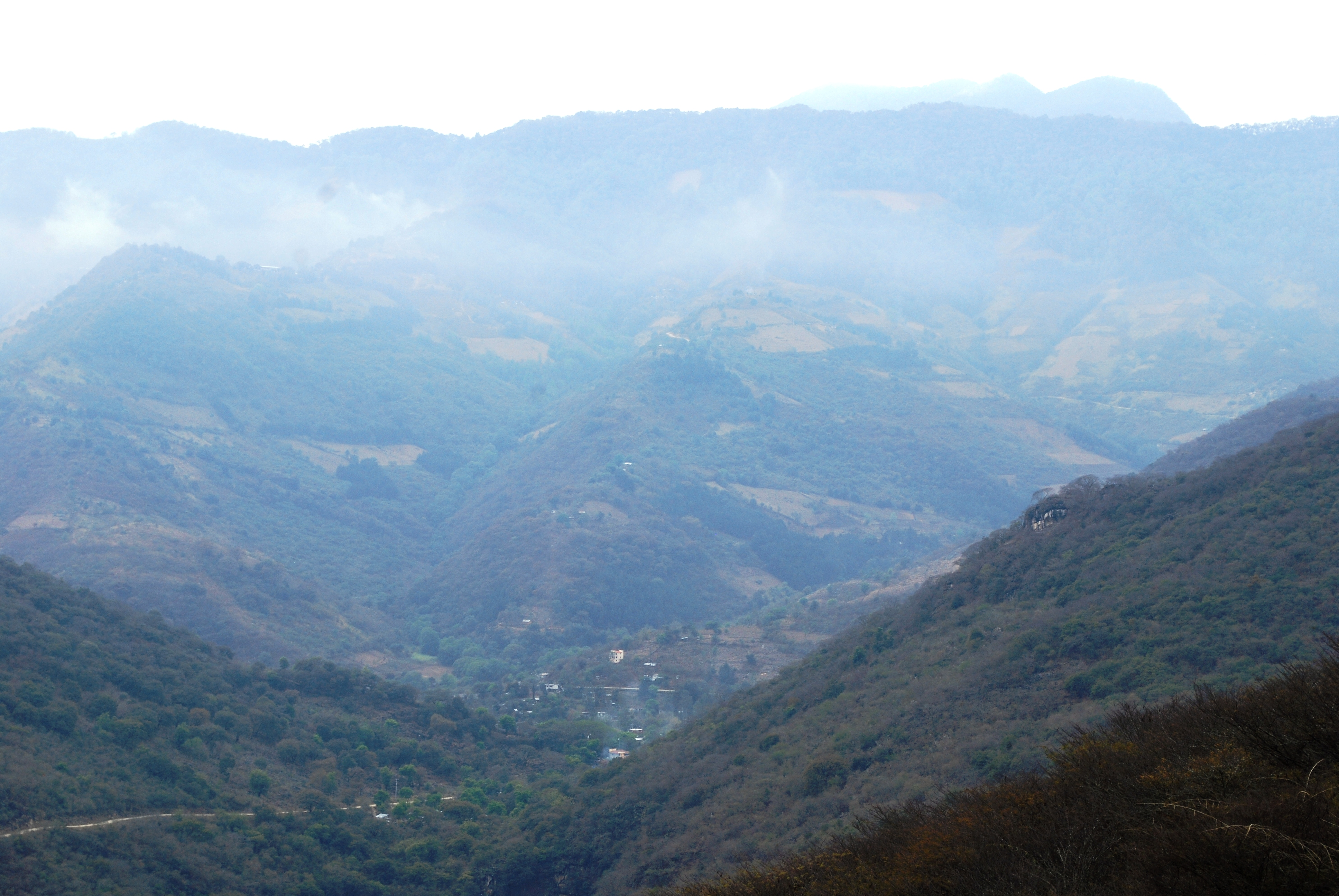 Scenery outside the town of Jalpan, Querétaro, Mexico